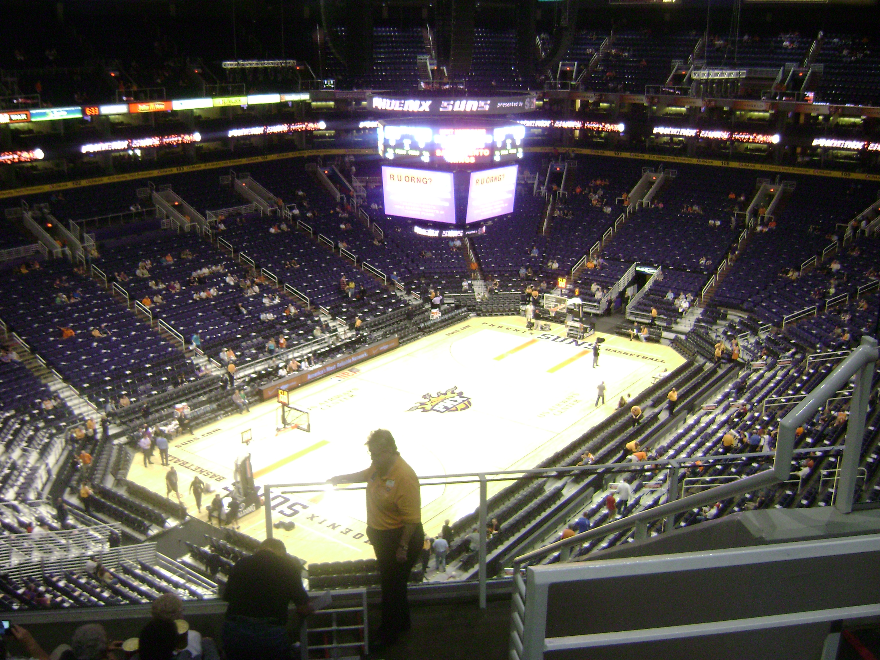 Phoenix Suns Game at US Airways center on Oct. 16, 2009